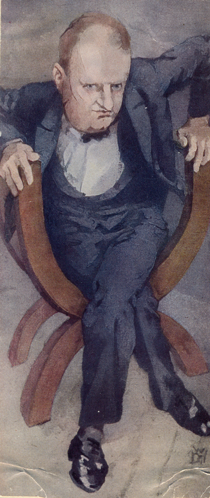 Rudolf Wilhelm Heinisch, Portrait Paul Hindemith, 1931, Oil on Canvas, 60 x 39 cm; originally displayed at the Staedelsche Museum, Frankfurt/Main; confiscated by the German National-Socialist regime, displayed in the exhibition "Entartete Kunst" and consequently destroyed.